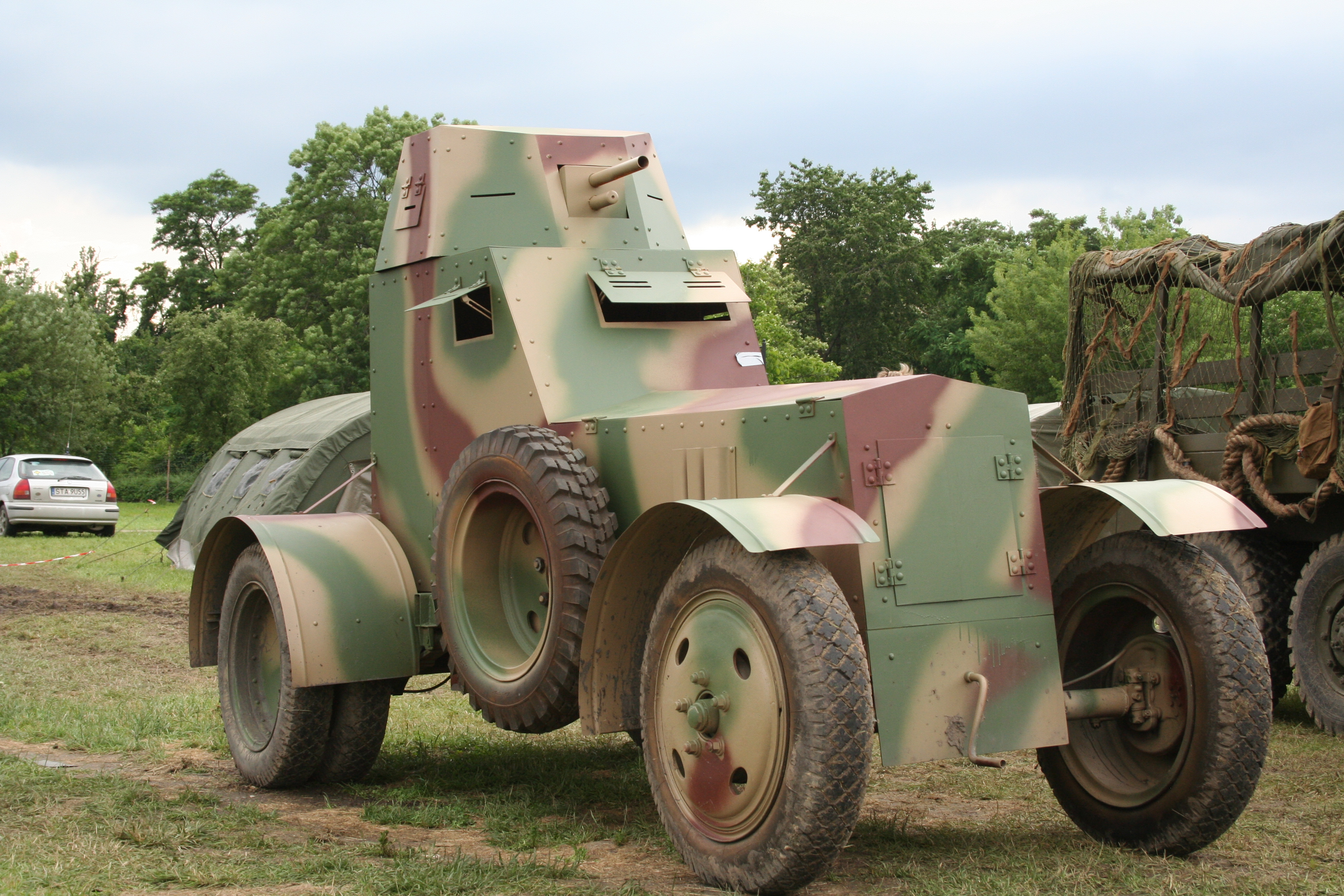 Armored car 1934 pattern - replica by Leszek Kusiak